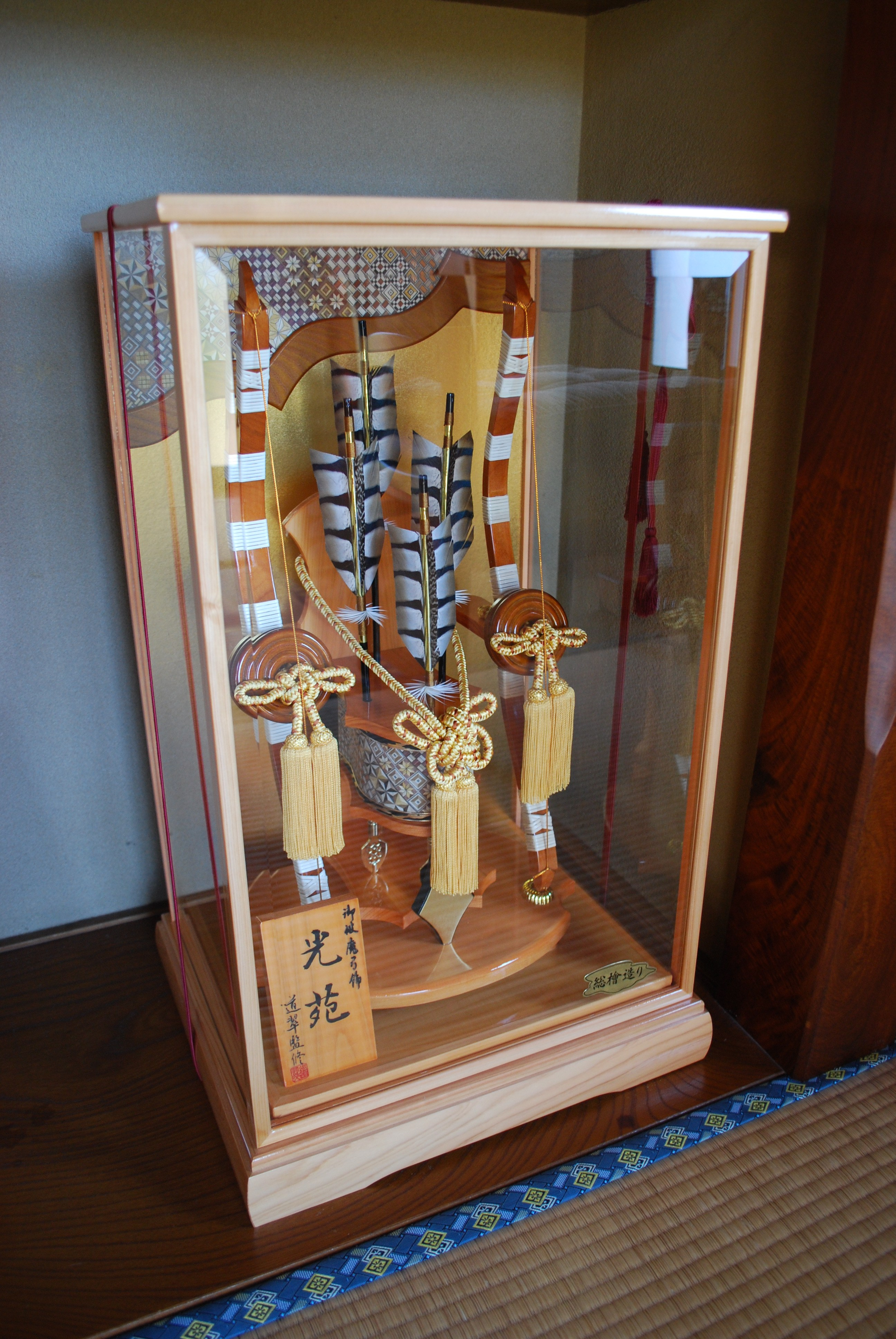 Hama-ya,Hama-yumi,katori-city,Japan. A New Year's exorcising arrow. I display it for New Year holidays. I give the family where a boy was born it.